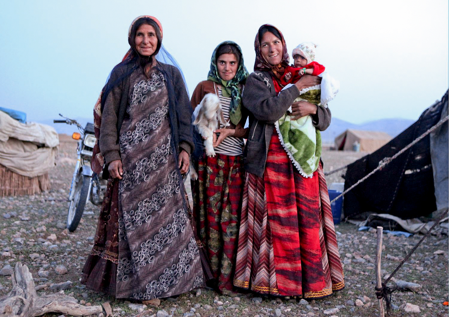 Evening in a Nomad Camp in Fars Province between Eqlid and Marvdasht, Ahmadabad, Fars, Iran